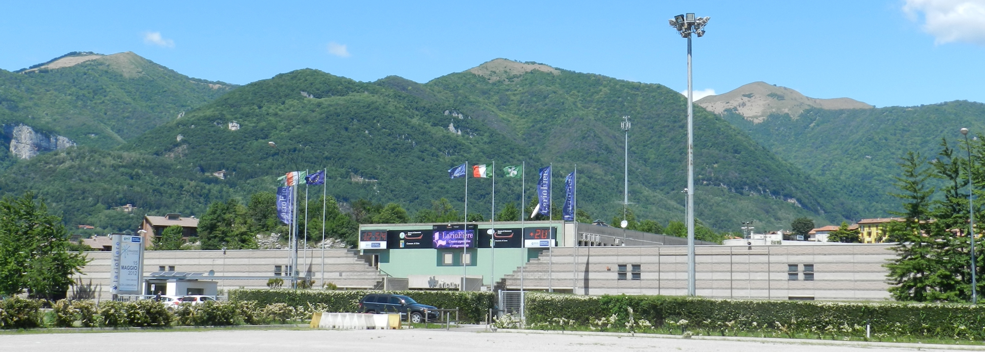 Lariofiere, exhibitions and convention center, main entrance view